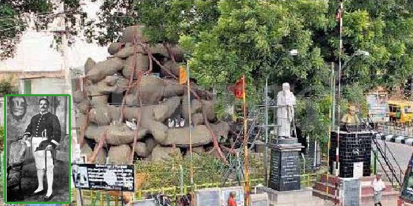 P .S PARK